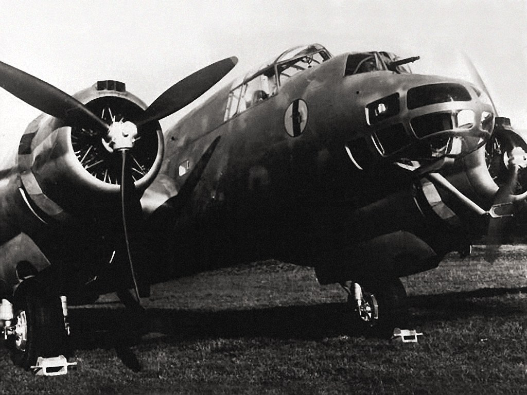 Piaggio P.108